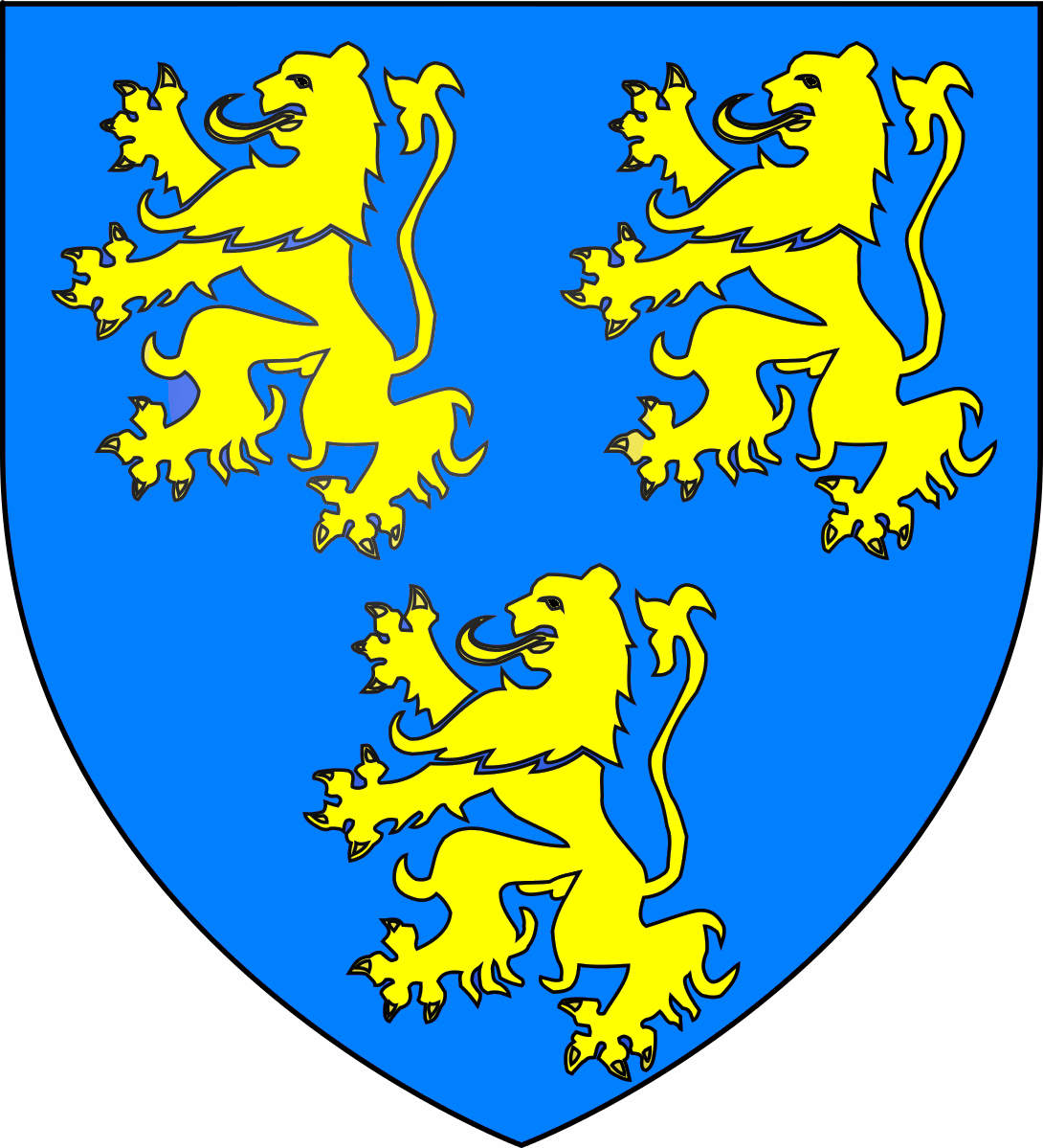 Arms of Fiennes, Baron Saye and Sele: Azure, three lions rampant or (Debrett's Peerage, 1968, p.995)